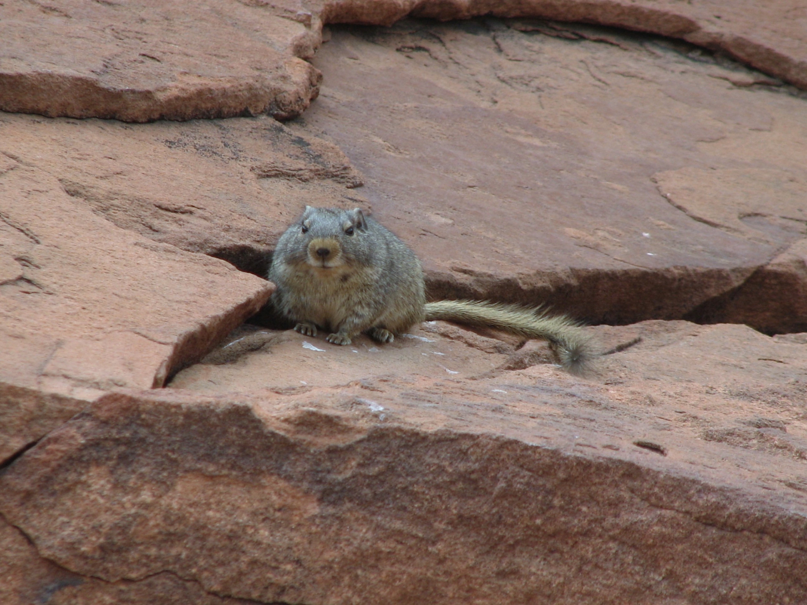 A Dassie rat at Twyfelfontein near Khorixas in the Kunene Region of Namibia Diné bizaad: Łéʼétsoh bitseetłʼooígíí